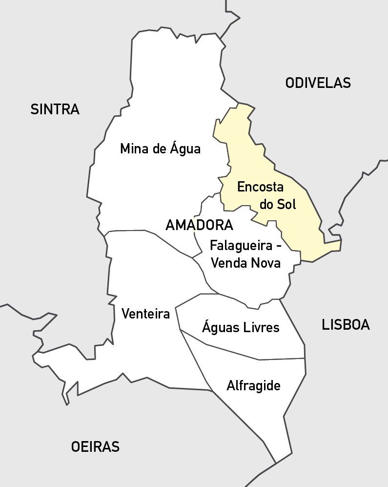 Map of the Freguesia Encosta do Sol of Amadora